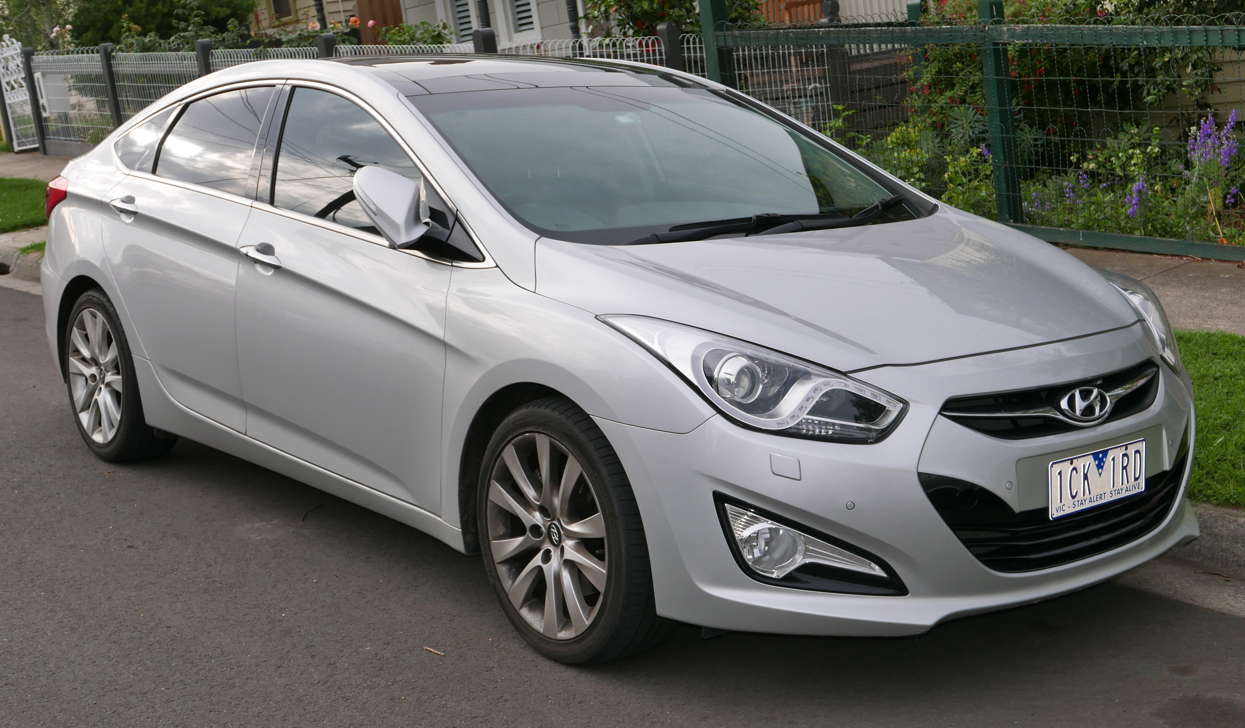 2012 Hyundai i40 (VF2) Premium 2.0 sedan. Despite the date discrepancy between the description and the vehicle registration information below, a check of the VIN reveals a build date of 6 December 2012. Photographed in Ascot Vale, Victoria, Australia. Vehicle registration enquiry resultsJurisdictionVictoriaRegistration1CK1RDChassis codeKMHLC41DMDU023317Engine codeG4NCCU335913Compliance date2013-01Year of manufacture2013